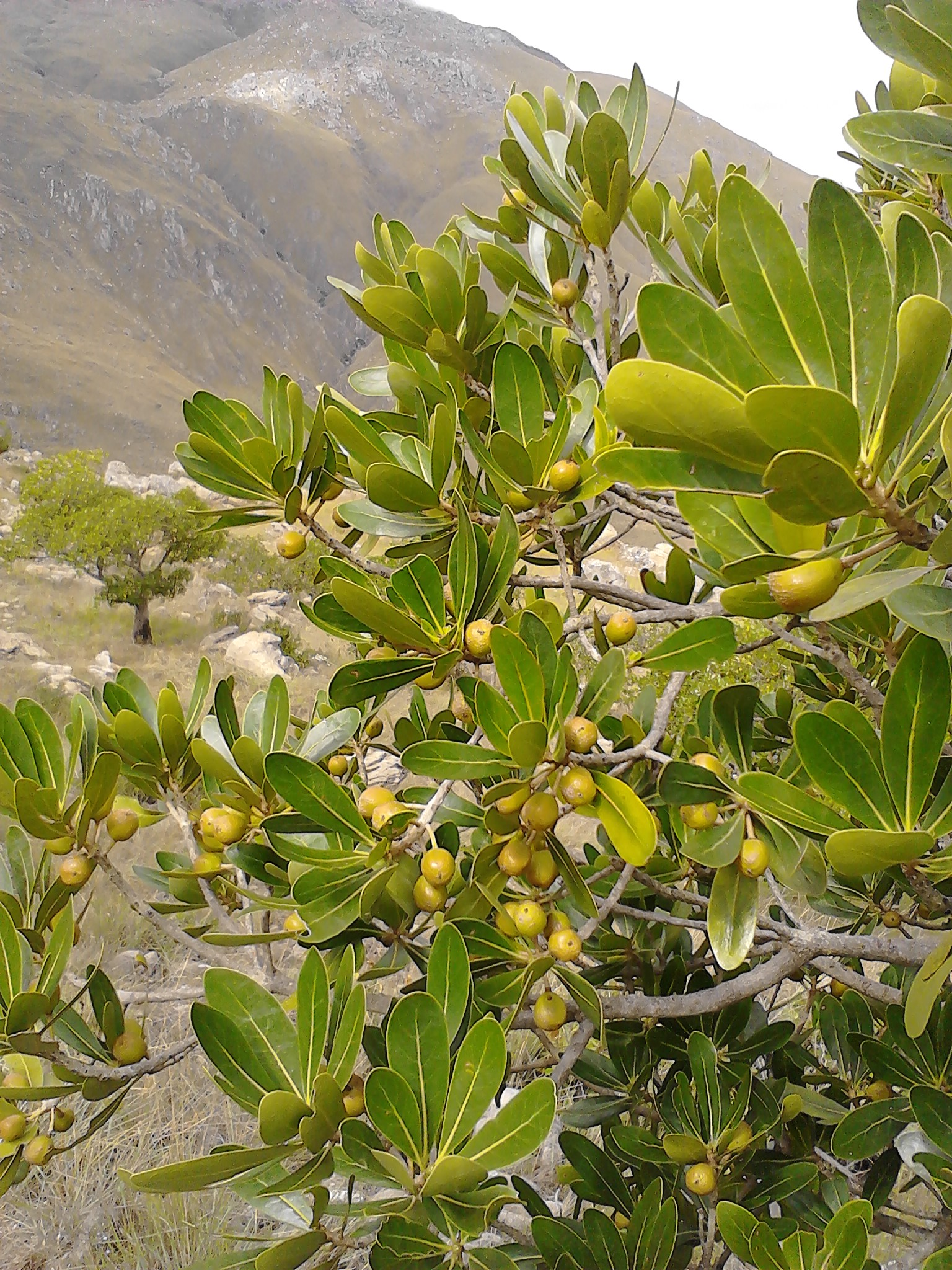 Tapia tree (Uapaca bojeri) with fruits. Central Highlands of Madagascar near Antsirabe. Mt. Ibity in the background.